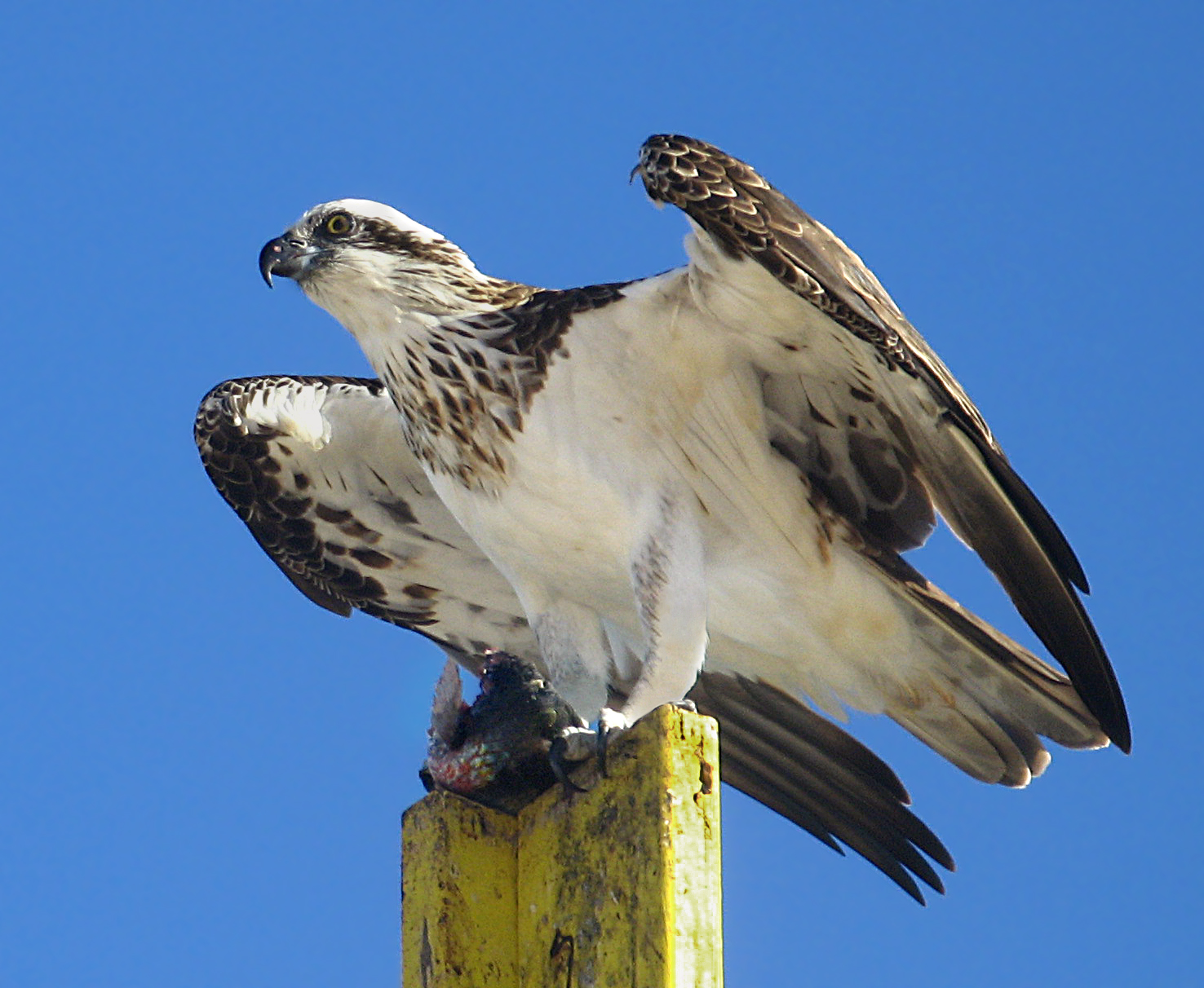 Pandion cristatus (Vieillot, 1816) Description:Australasian OspreySources:Western Australia, Coral Bay, 2007Author:PsylexicLicense:GFDL|cc-by-sa-2.5,2.0,1.0